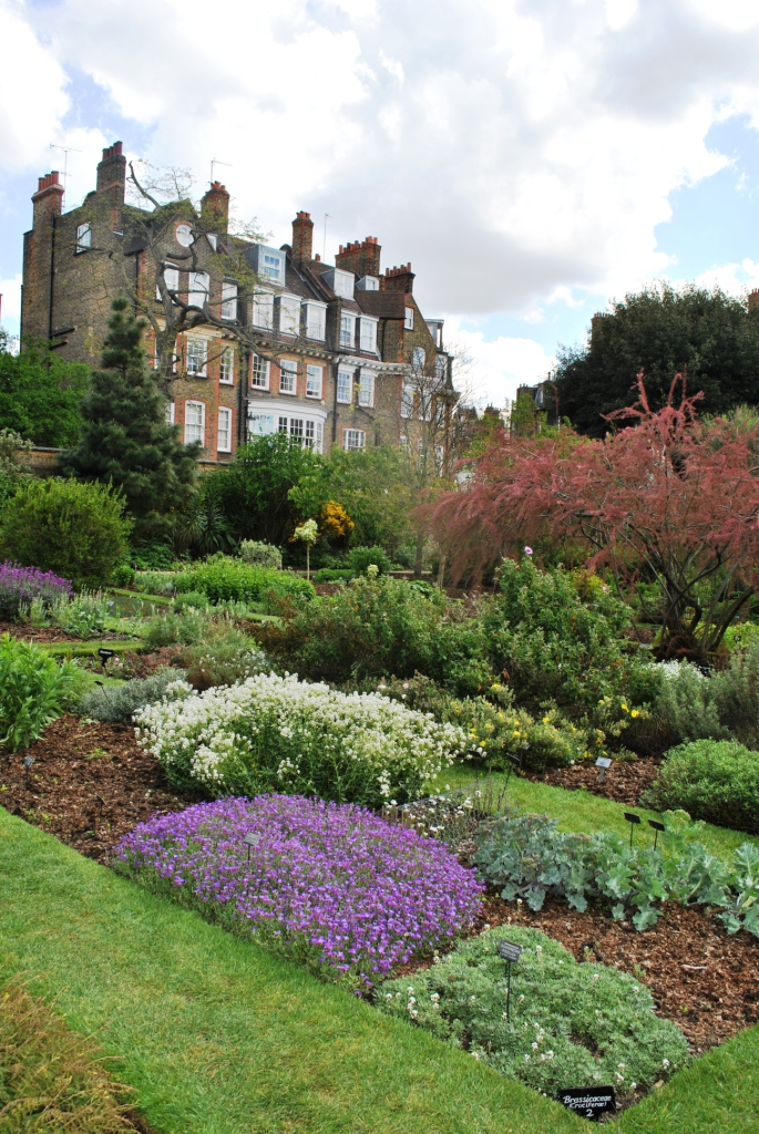 Garden Corner